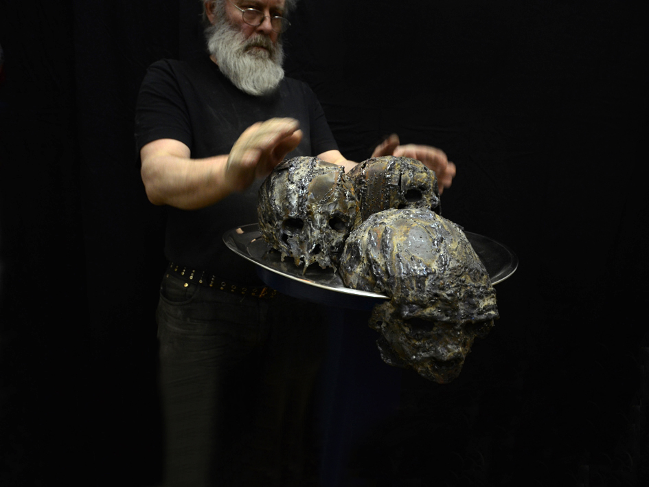 Objekt